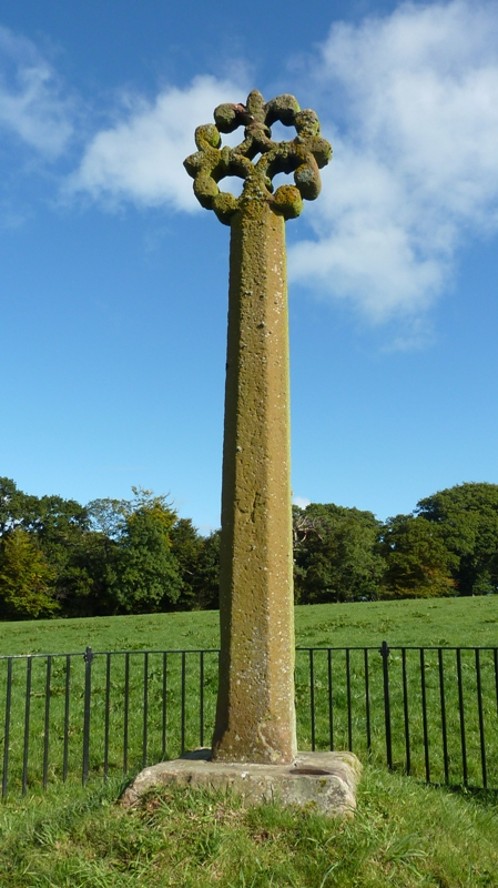 Merkland Cross, Dumfries and Galloway, Scotland.